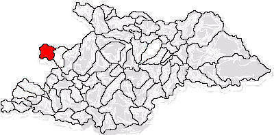 Map of Seini commune in Maramures County